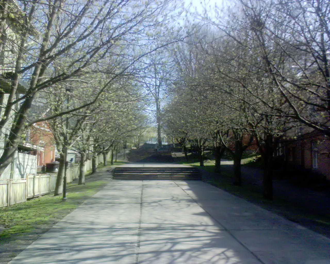 A view to University Hill in Turku, Finland